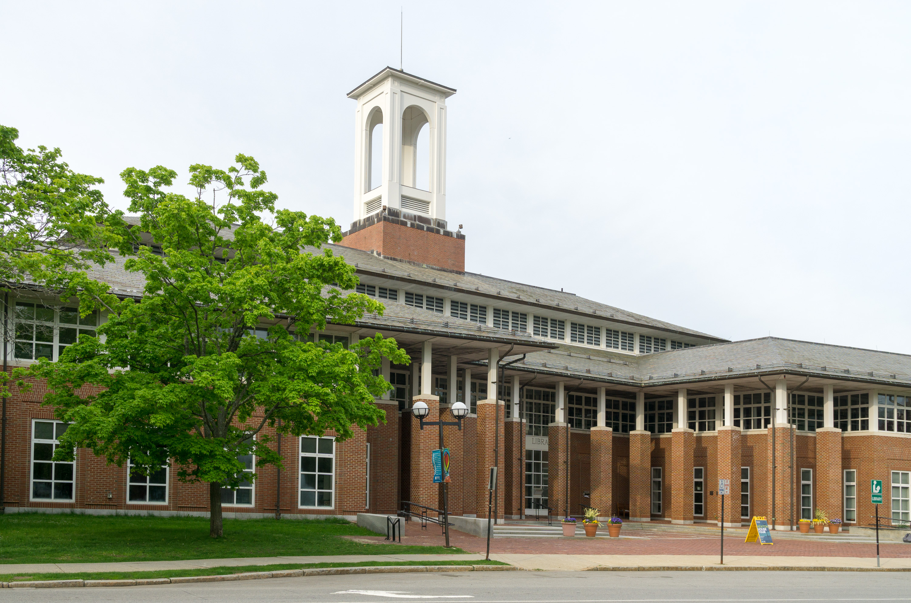 Theodore D. Mann Building on Homer Street. Newton Public Library, Massachusetts